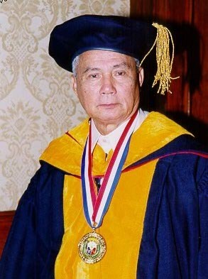 Profile of National Scientist Angel Alcala